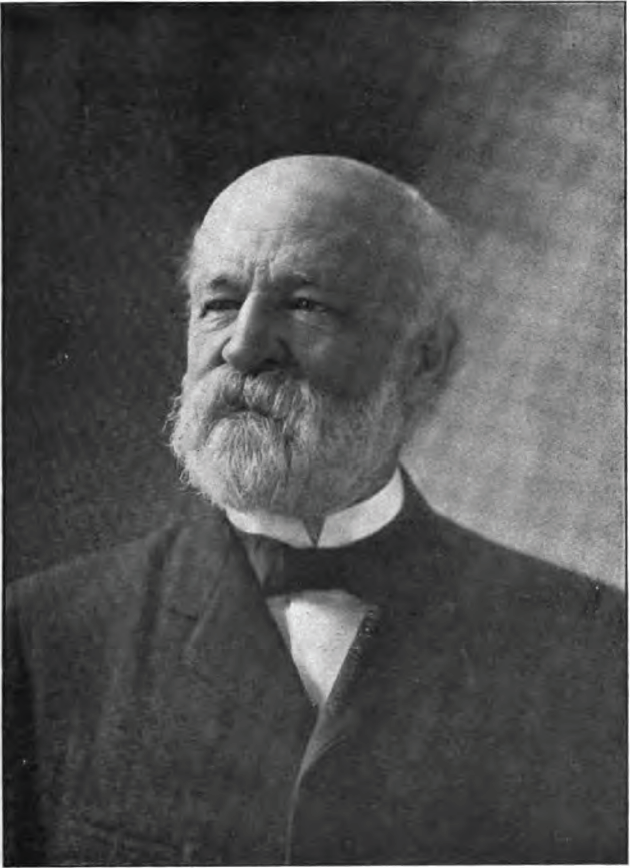 Portrait of Francis H. Peabody, founder of Kidder Peabody & Co. c. 1908